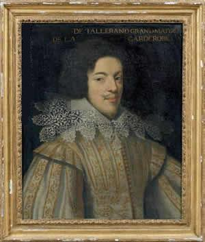 Portrait of Henri de Talleyrand-Périgord, comte de Chalais (1599-1626)